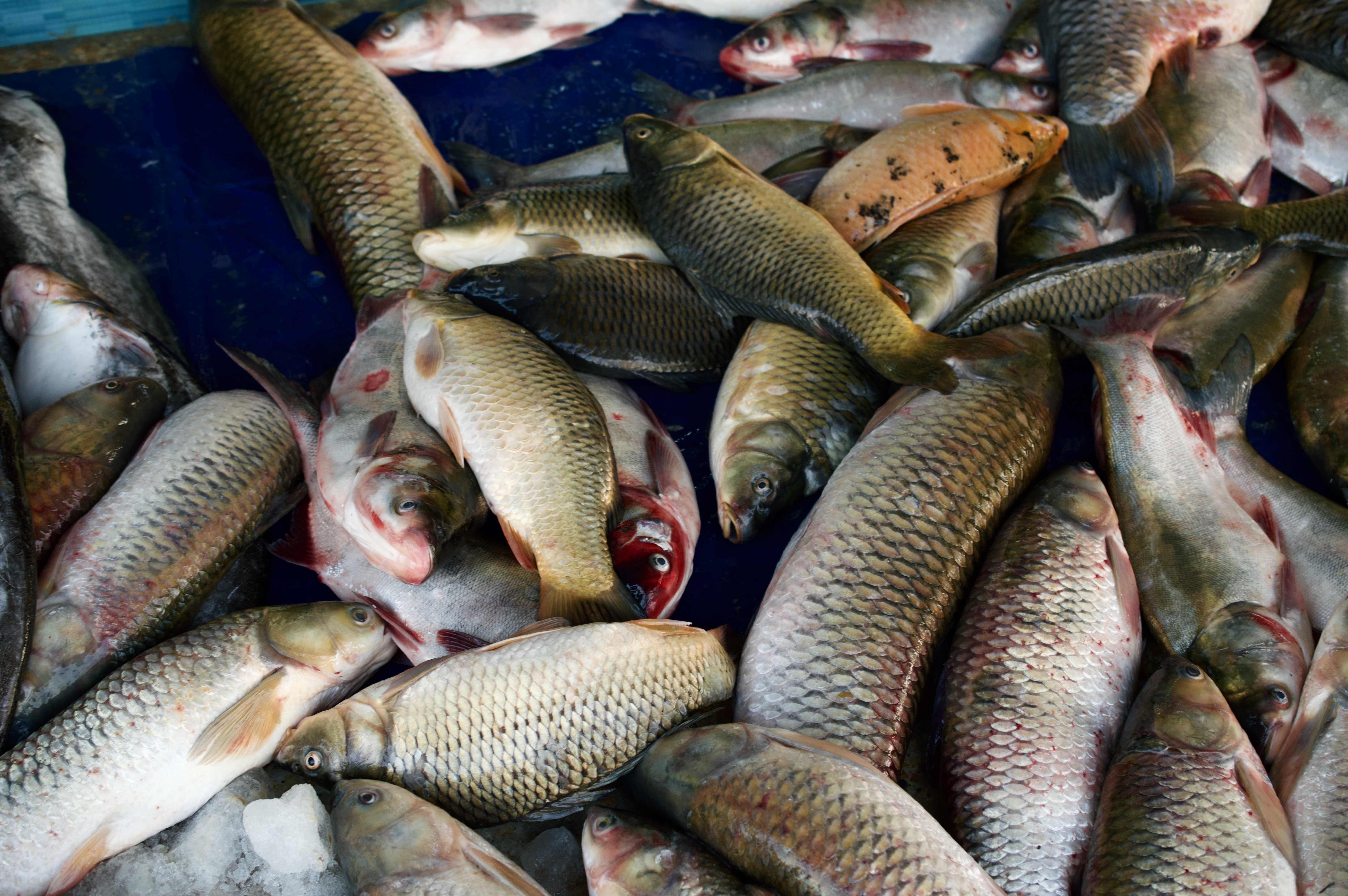 Views around Teyrawa Bazaar in Erbil